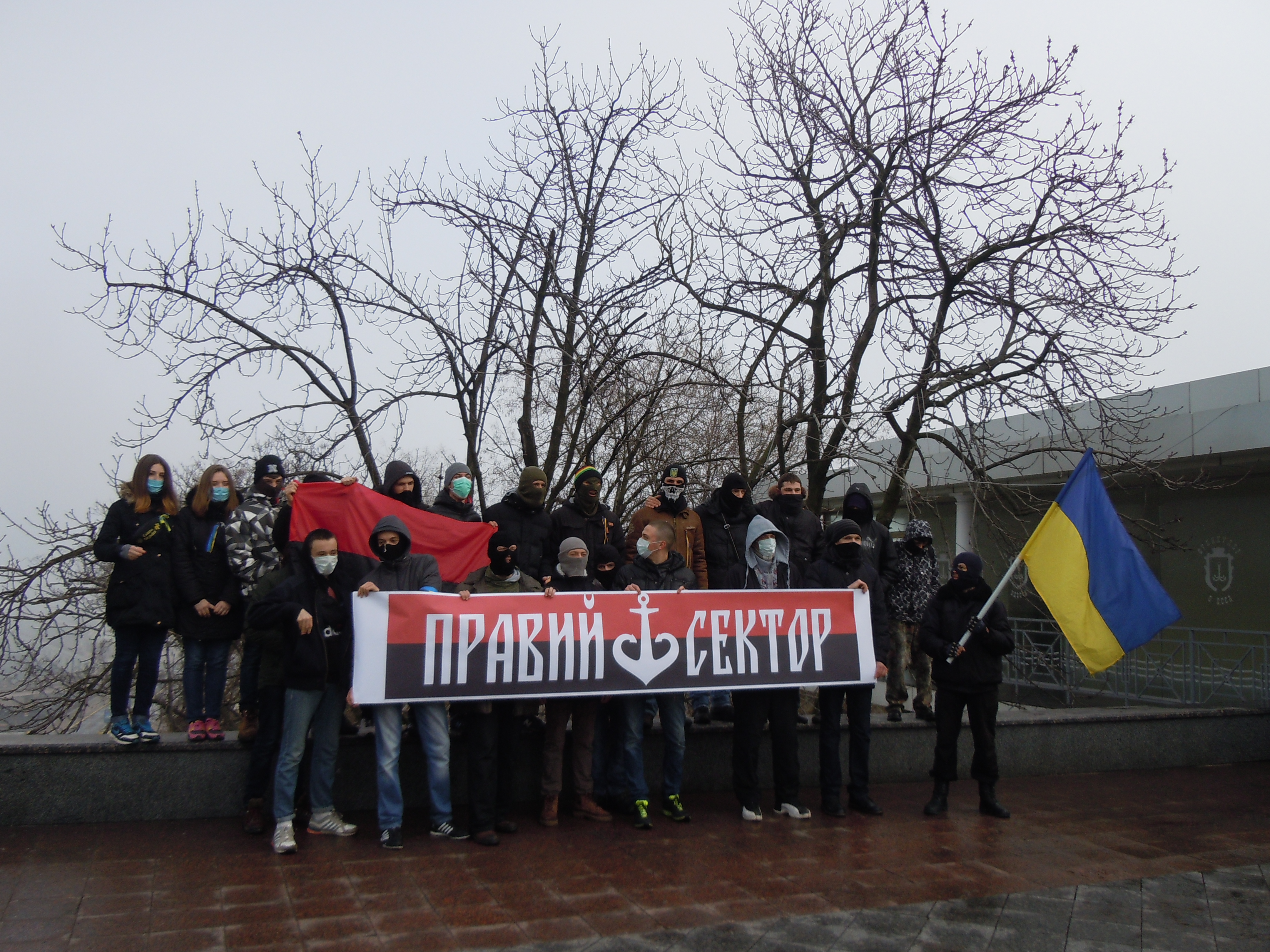 Activists of the Right Sector on EuroMaidan in Odessa